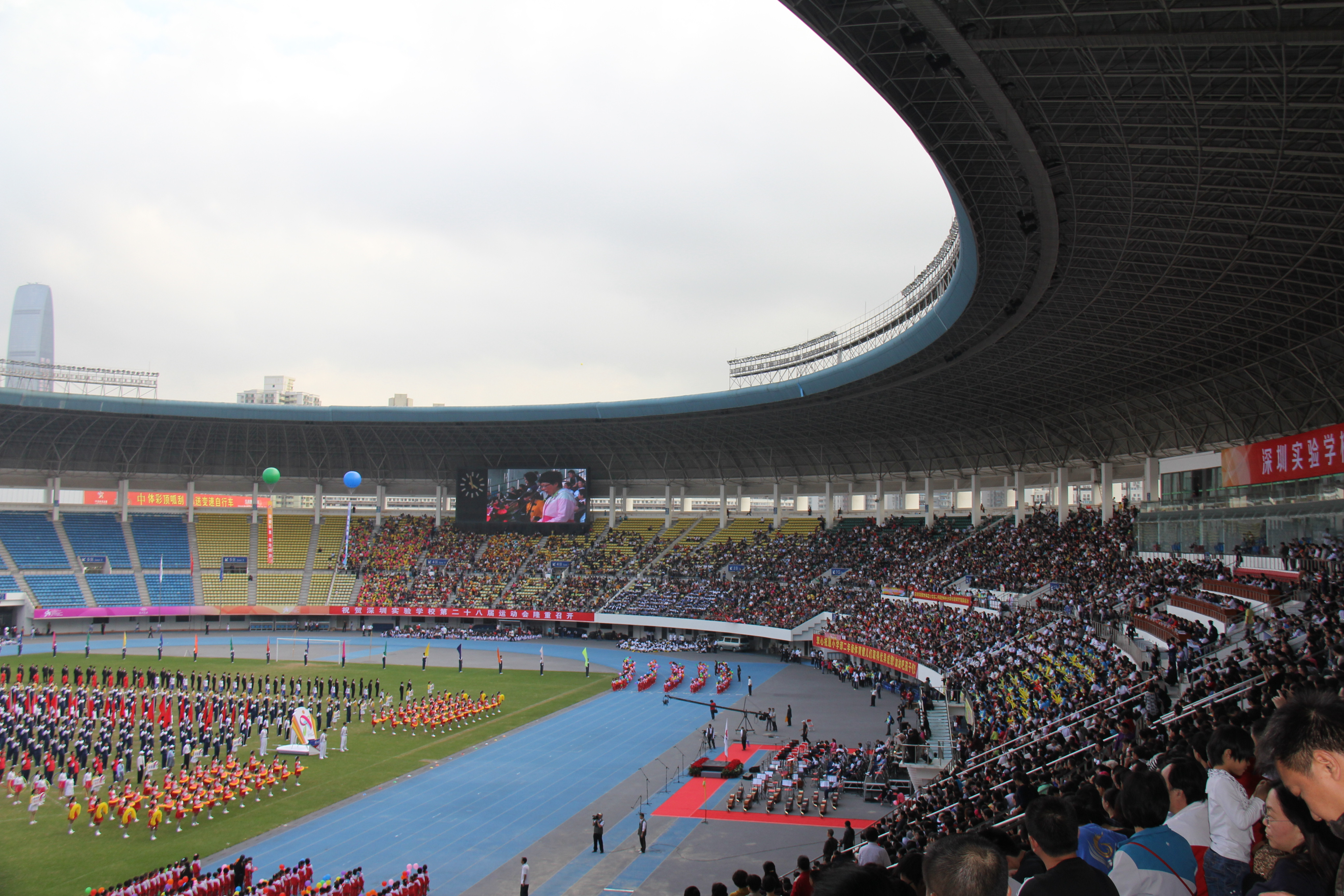 This is the 28th sports meeting opening ceremony of Shenzhen Experimental School.